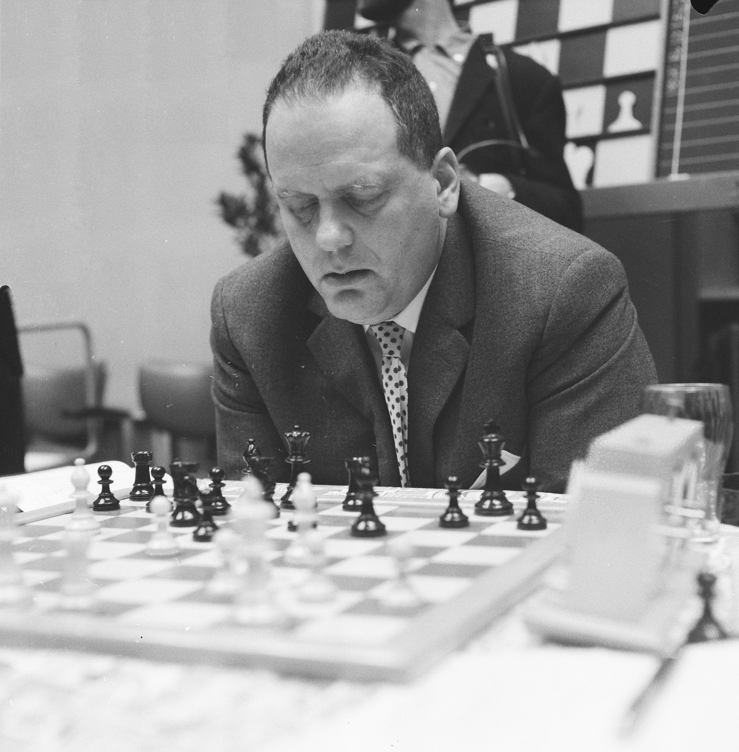 Heinz Lehmann, chess player from West Germany, during the 28th Hoogovens Chess Tournament in Beverwijk (The Netherlands), 12 Jan. 1966